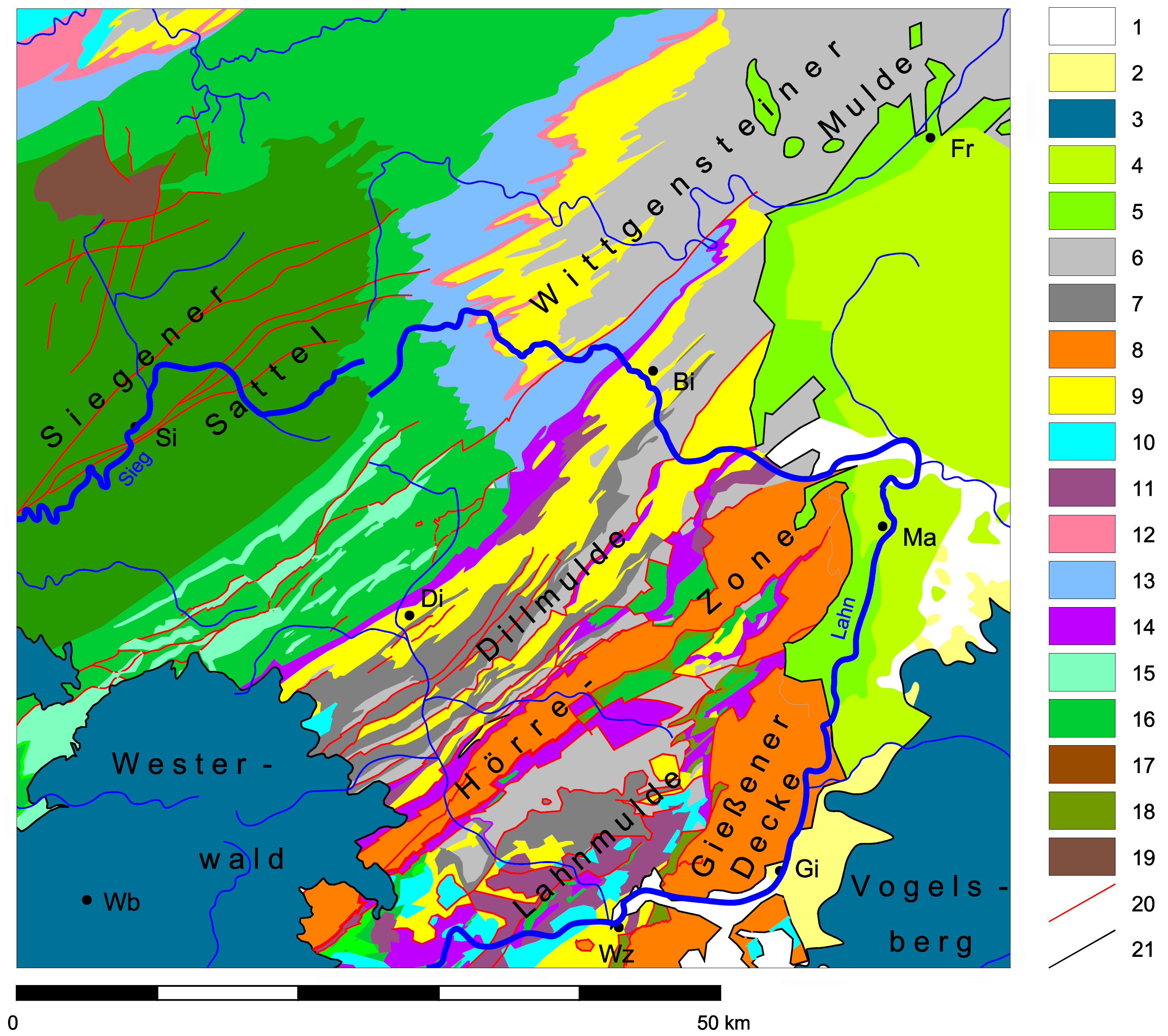 Geological map of Dill Syncline, Siegen Anticline, Wittgenstein Syncline, Germany